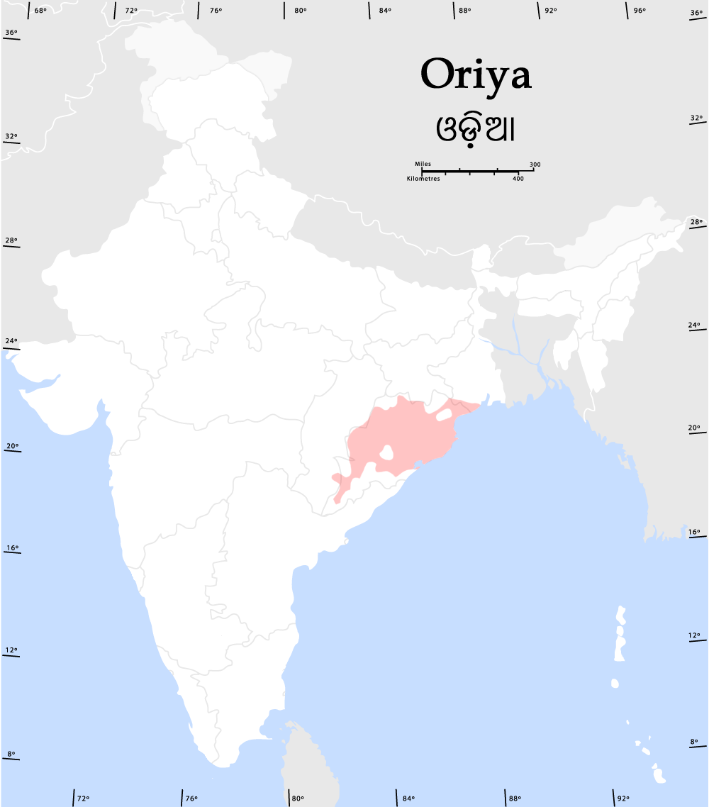 A map of the distribution of native Oriya speakers in India